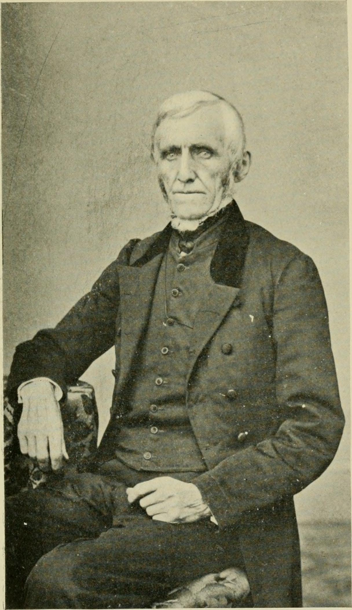 Title: The story of the life and work of Oren B. Cheney, founder and first president of Bates college Year: 1907 (1900s) Authors: Cheney, Emeline Stanley Aldrich Burlingame Subjects: Cheney, Oren Burbank, 1816-1903 Bates College (Lewiston, Me.) Publisher: Boston, Mass., Pub. for Bates college by the Morning star publishing house Text Appearing Before Image: Abigail CheneyMother of Oren B. Cheney Text Appearing After Image: Moses CheneyFather of Oren B. Cheney ANCESTRYBOYHOOD On the tenth of December, 1816, while a snow-storm was raging without, in a modest, but com-fortable home, in a quiet New Hampshire village,a blue-eyed baby boy opened his eyes and caughthis first glimpse of life. On December twenty-second, 1903, those eyesclosed on earthly scenes and a few days later astately form was laid at rest. The life lived andthe influence exerted in the years that bridgethese dates will be the theme of this book. Heredity is of uncertain value. Men that havehonored themselves and their country havechanged their names, because of the stigma des-cending from unworthy ancestors. Others, whoselives are insipidly weak, show an overweeningpride in tracing their line of descent back to nobleor heroic characters. Yet the man is not livingwho would not rejoice in an honorable ancestry. Oren Burbank Cheney was born of sturdy NewEngland stock, in which the religious element hadbeen strongly developed through several g